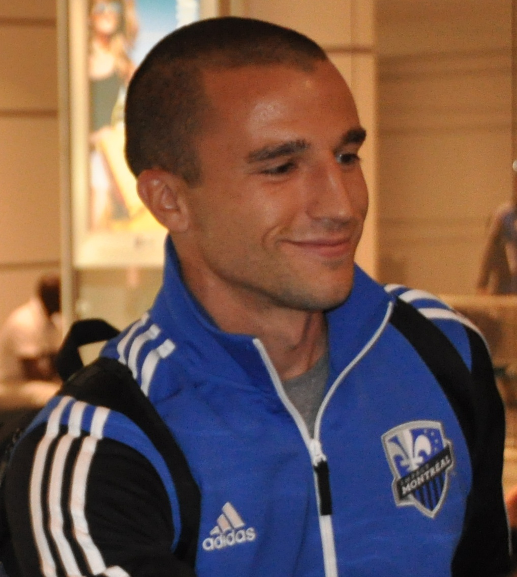 Montreal Impact's goalkeeper Evan Bush at Montréal–Pierre Elliott Trudeau International Airport, 2 June 2013.